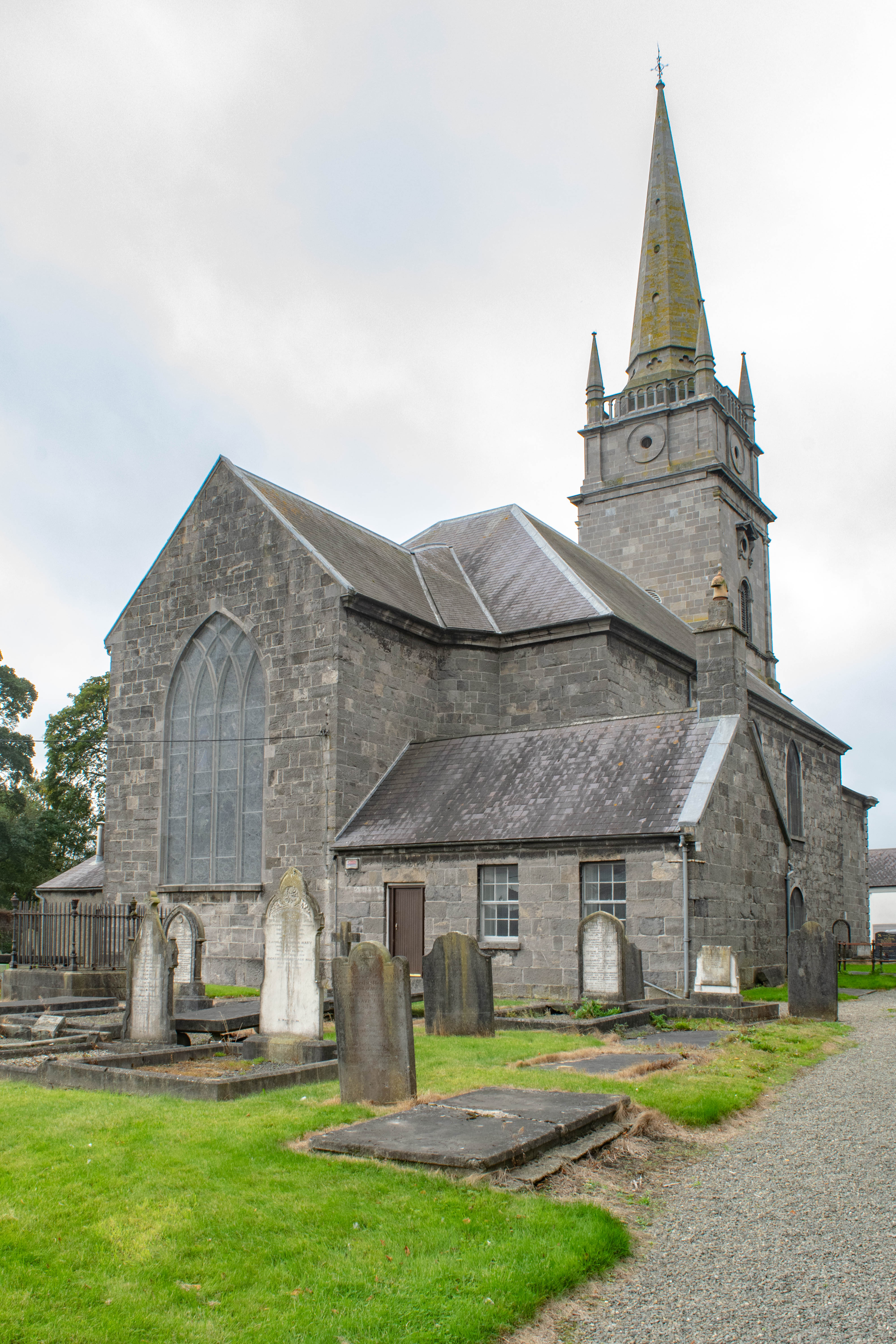 Drogheda, St Peter's Church. Wikidata has entry Q55028957 with data related to this item.